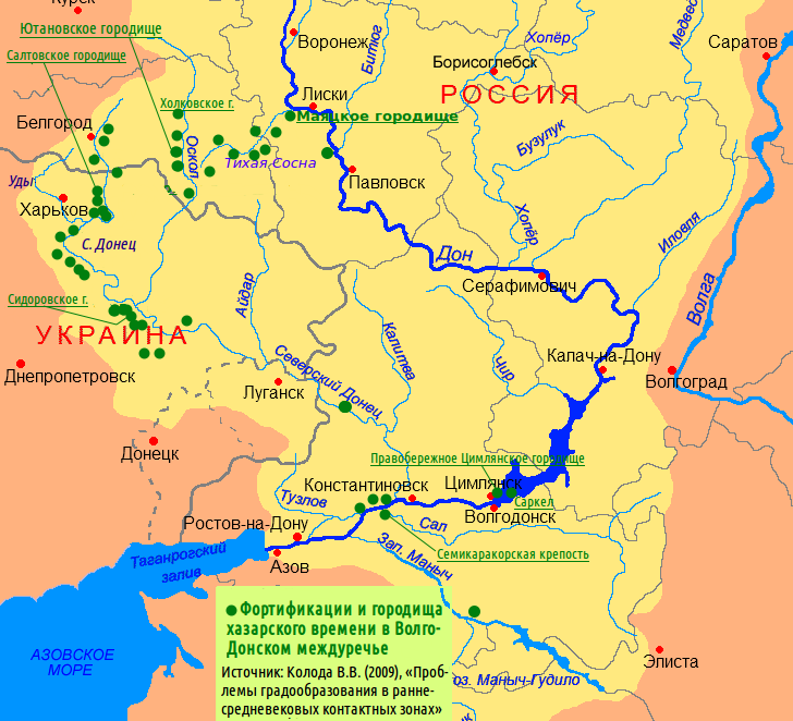 Fortifications and ancient settlements of the Khazar period in the Volga-Don interfluve // Source: (in Russian) V. V. Koloda (2009), "Problems of township formation in the early medieval contact zones." // map